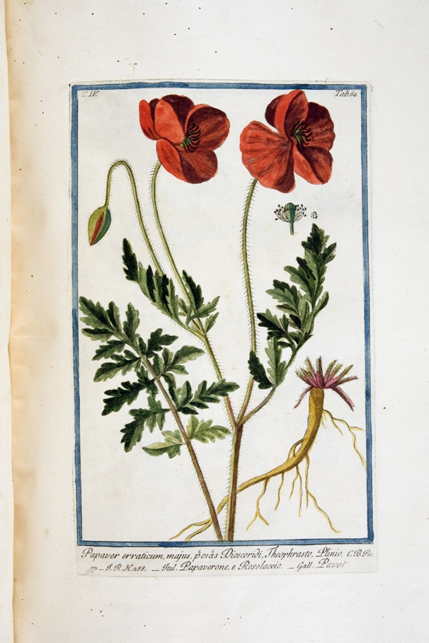 Biblioteche Riunite “Civica e A. Ursino Recupero” - Erbario a stampa di Sabbati (1772-1793)